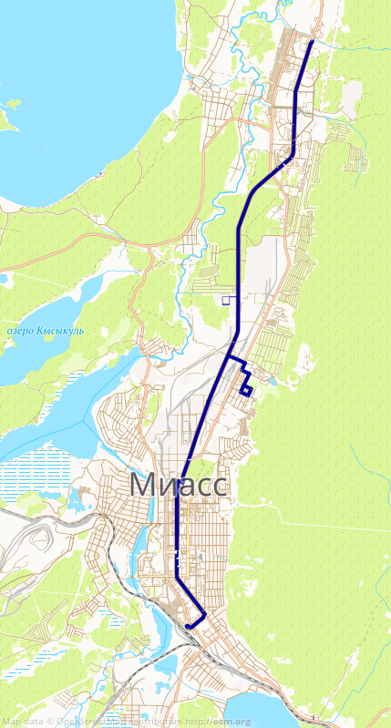 Trolleybus routes in Miass, Russia. Map data by OpenStreetMap contributors, rendered via alaCarte.